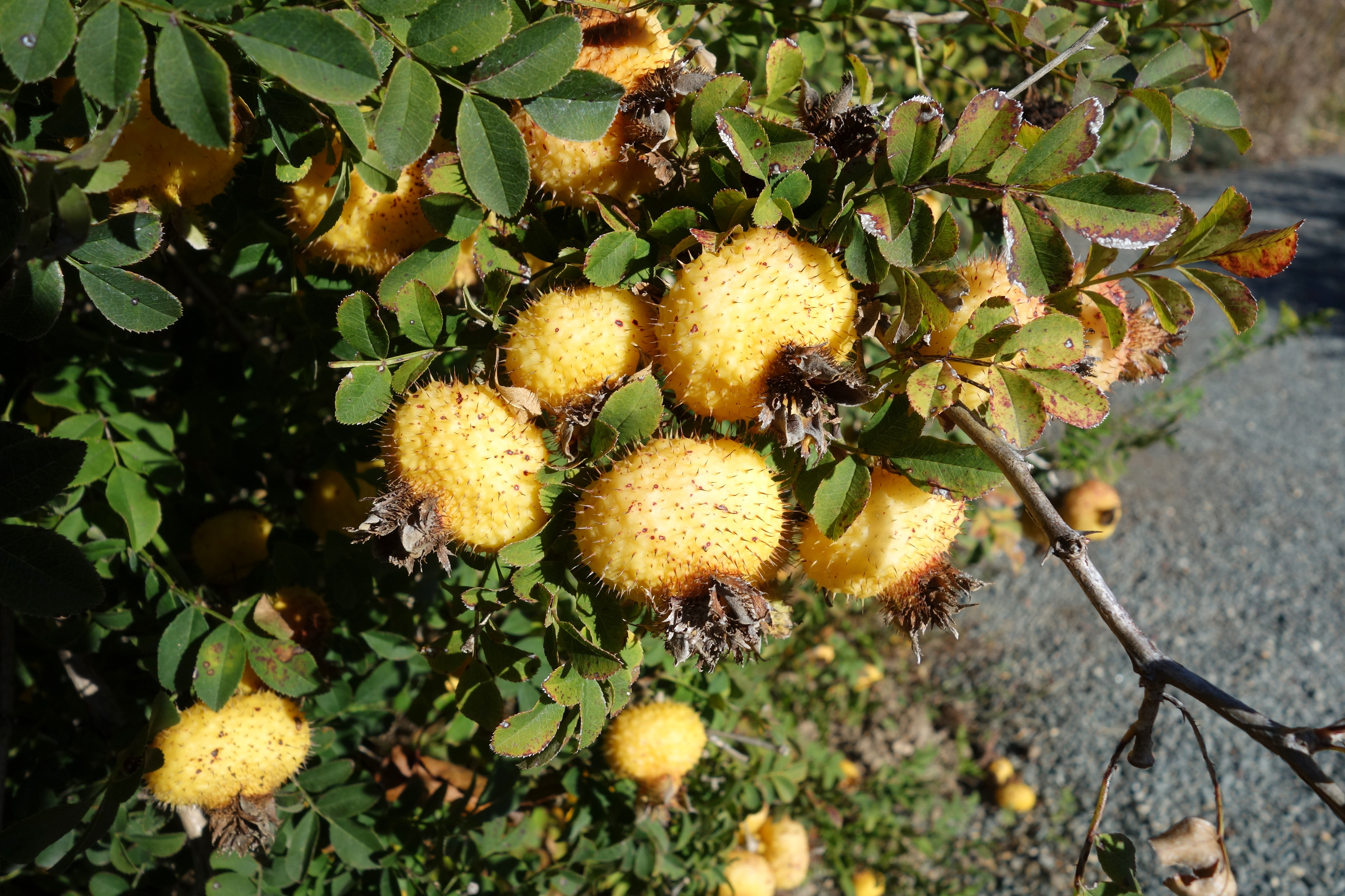 Botanical specimen in Quarryhill Botanical Garden, Glen Ellen, California, USA.